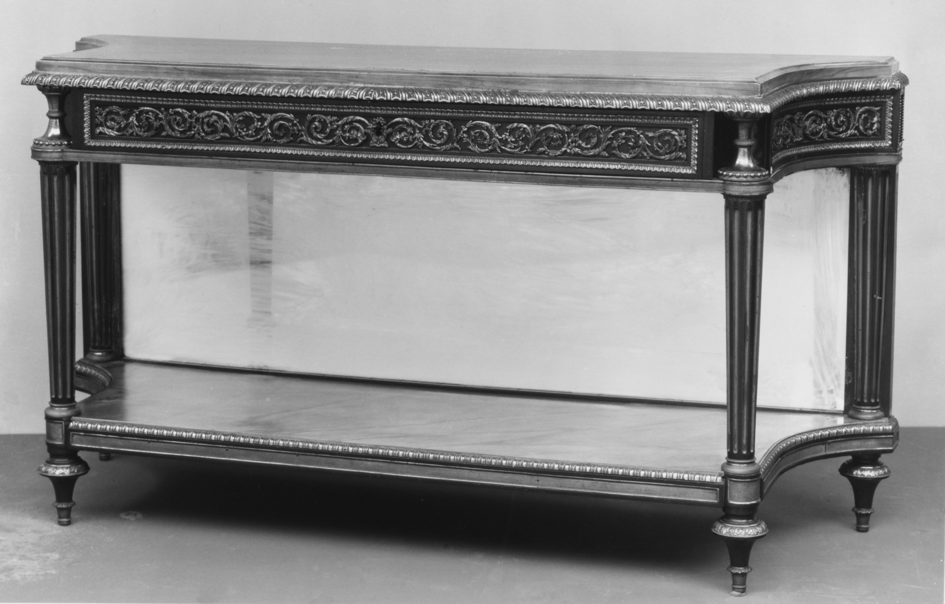 French; Side table; Woodwork-Furniture